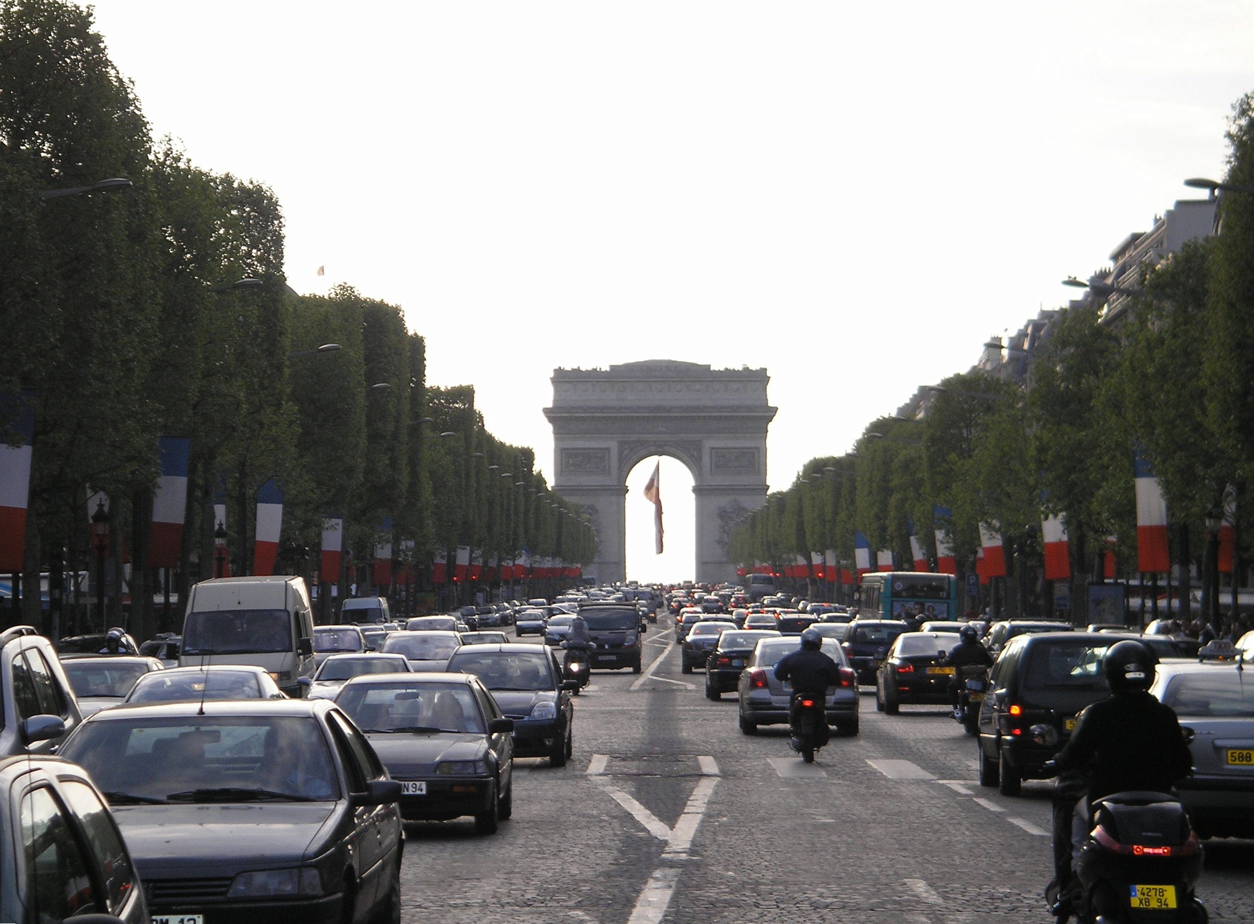 View on the Arc de Triomphe in Paris.